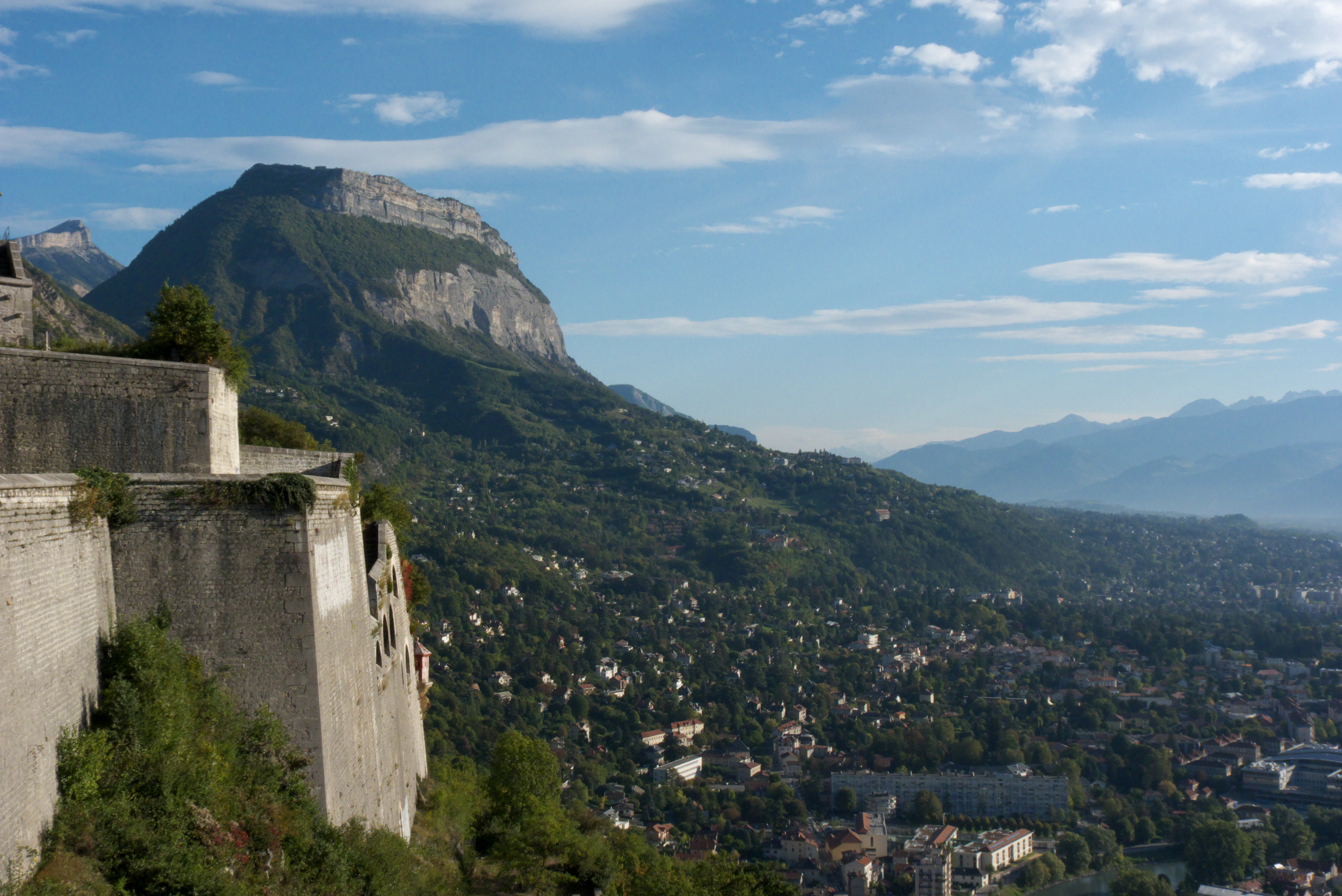 Bastille of Grenoble and Saint Eynard, seen from Bastille.